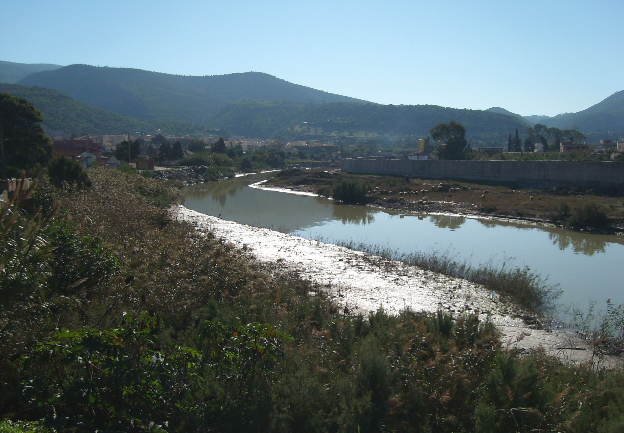 Alala river at its mound in the Mediterannian Sea, Ténès, Algeria. Notice: Could not find any documentation in Internet that this river exists. Please replace this notice with documentation -- Nillerdk (talk) 05:34, 30 April 2009 (UTC)